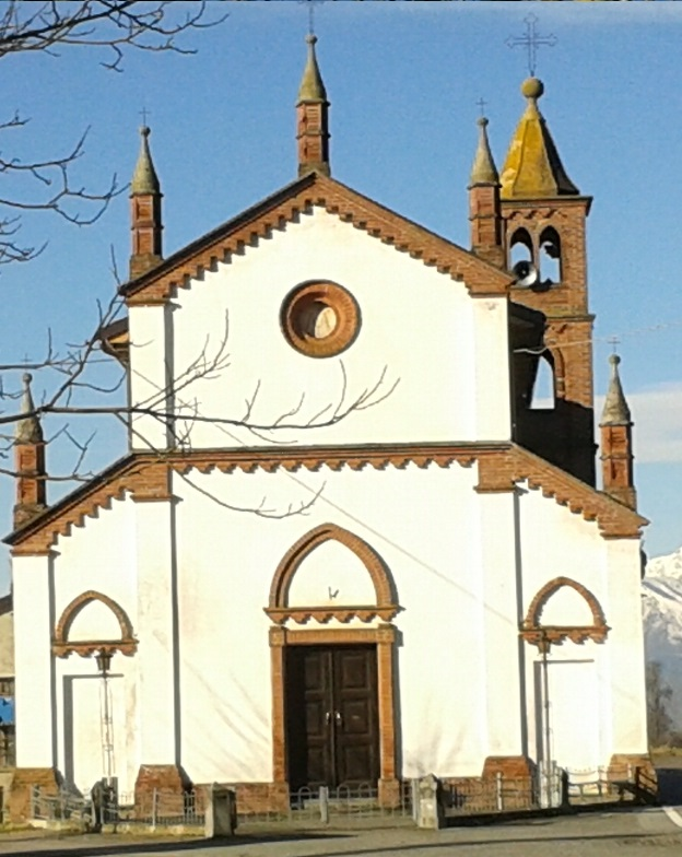 Sanctuary of Faule